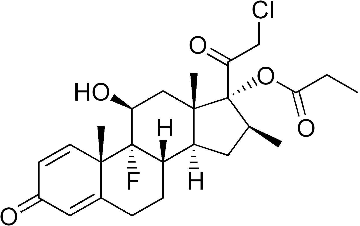 chemical structure of clobetasol propionate